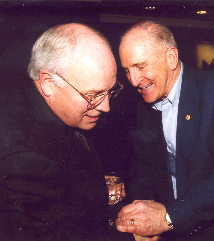 U.S. Rep. Sam Johnson has a casual conversation with Vice President Dick Cheney.